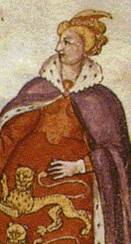 Portrait of Joan of the Tower (1321–1362)